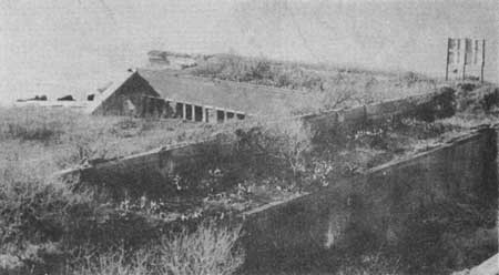 Photo of Fort Livingston